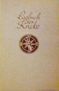 Book cover of Das Logbuch des guten Schiffs Krake DGIC by German author Martin Luserke (1880–1968), published by Ludwig Voggenreiter Verlag in Potsdam, Germany. Its initial release was in 1937.